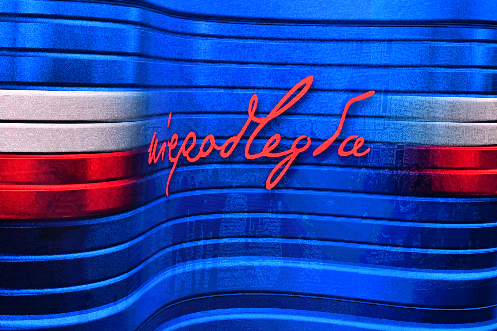 Concert for Independence. November 10, 2018. Warsaw. Poland.